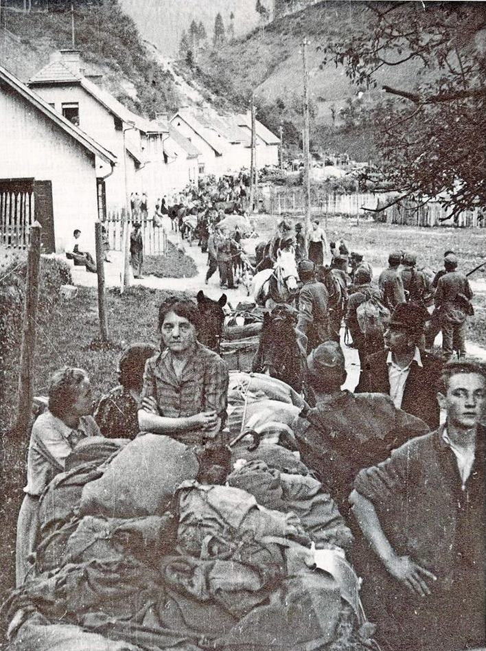 Slovenski begunci na cesti Tržič-Ljubelj maja 1945